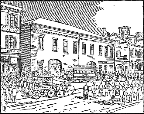 Horsecar of the South Boston Railroad departing from the Broadway Carhouse under police guard, during the strike of February-March 1887. The carhouse building shown here is also depicted in File:Broadway, South Boston Carhouse (16238981502).jpg.